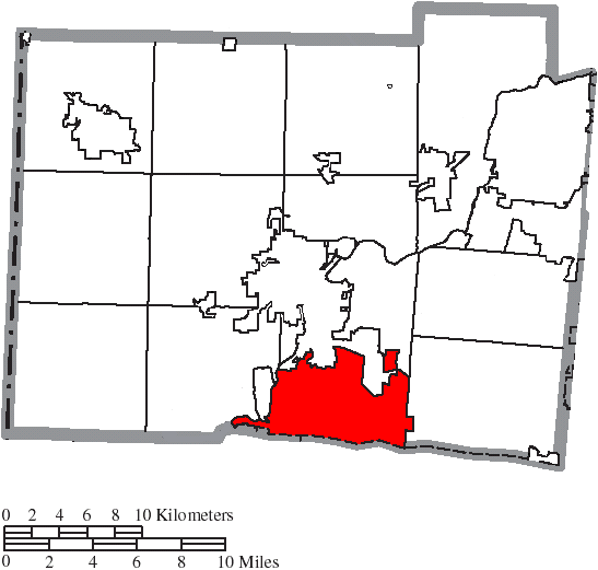 Map of the municipal and township boundaries of Butler County, Ohio, United States, as of the 2000 census, with the location of the city of Fairfield highlighted. Township borders are shown only in unincorporated areas in order to differentiate incorporated and unincorporated areas more clearly.